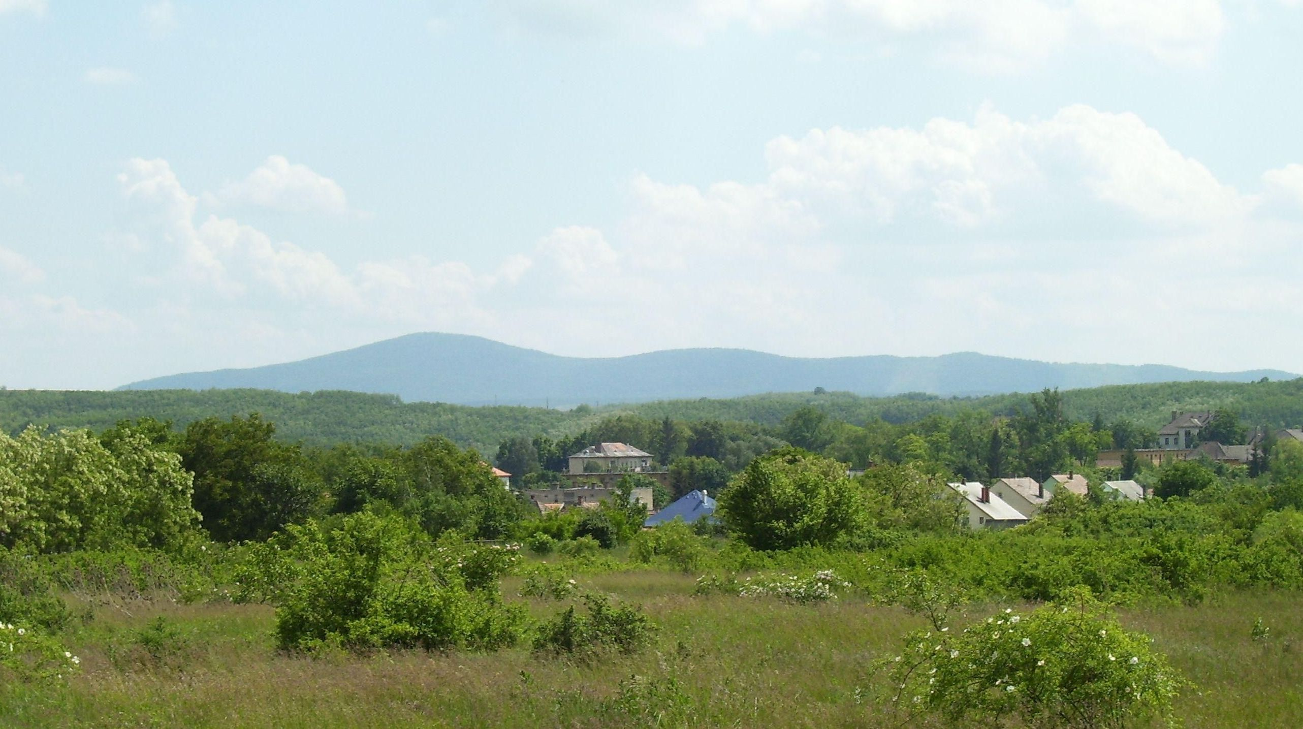 Photo of the Naszály mountain (in northern Hungary, 652 m)from Rétság. It was taken in the summer of 2008.